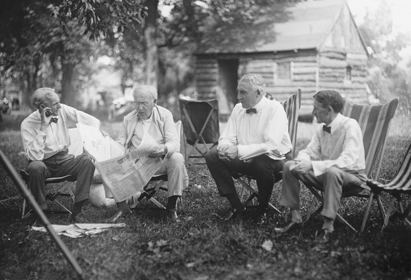 Left to right, inventors and magnates Henry Ford and Thomas Edison, President of the United States Warren G. Harding, and businessman Harvey S. Firestone, 1921.